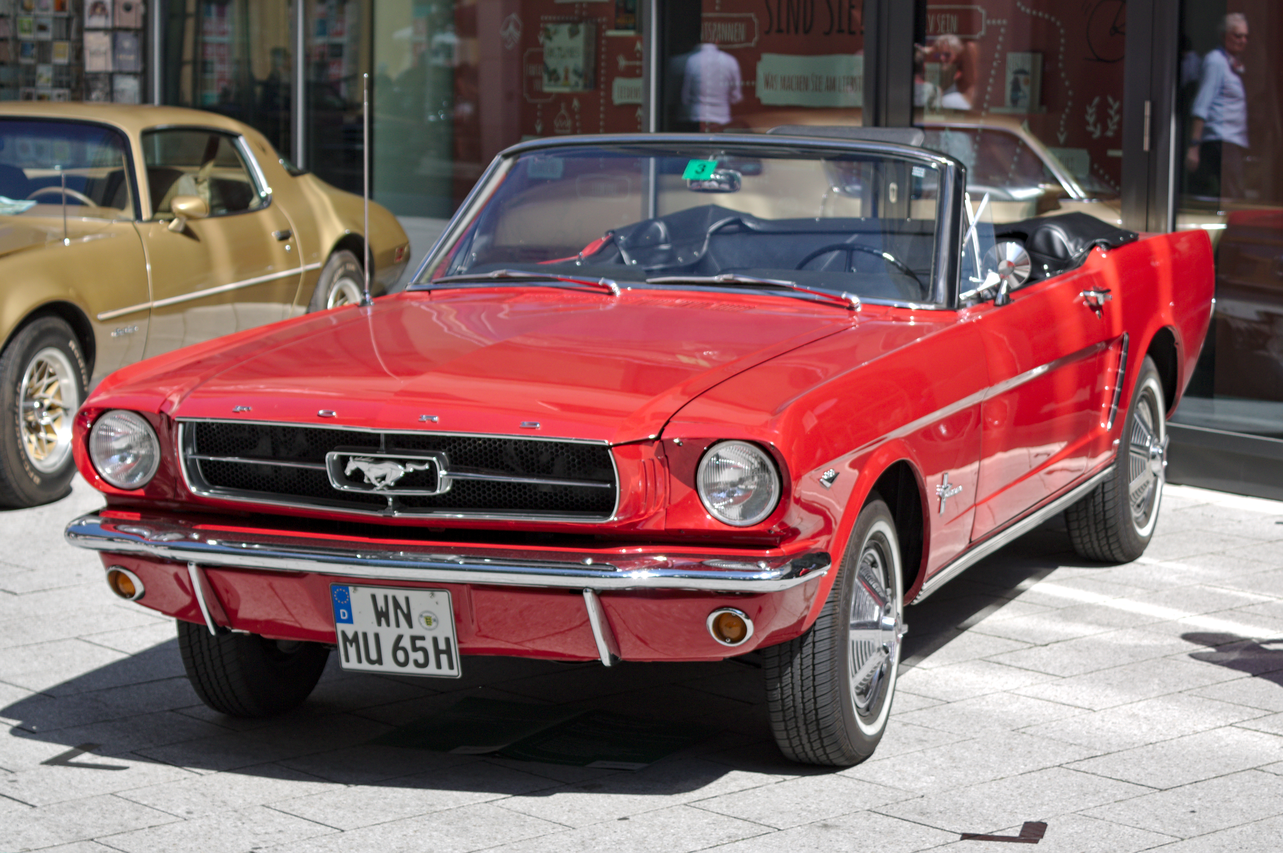 Ford_Mustang_I in Stuttgart